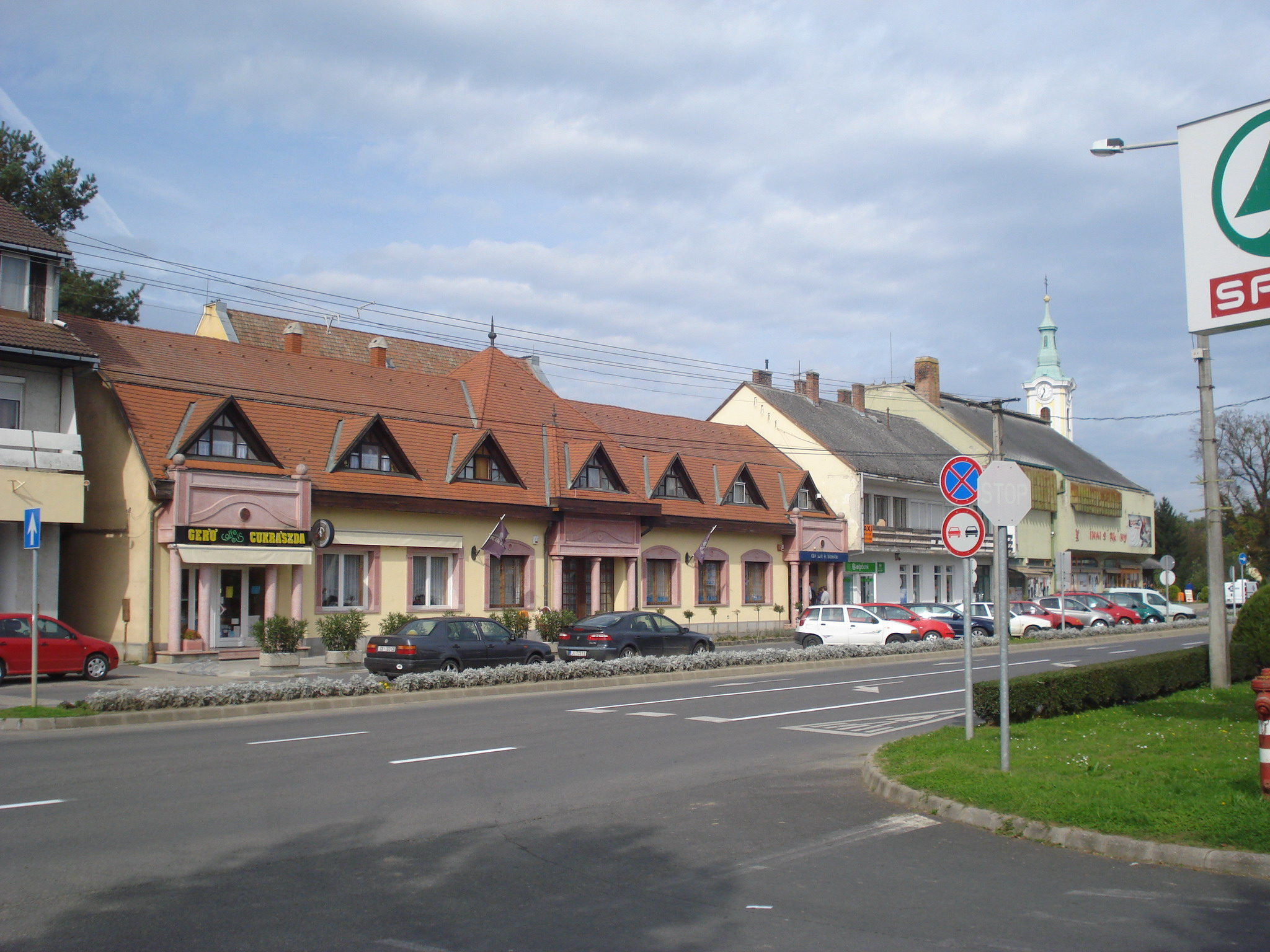 Letenye, Hungary - town centre